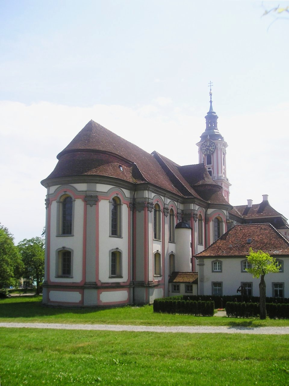 Pilgrimage Church of Birnau, seen from North West